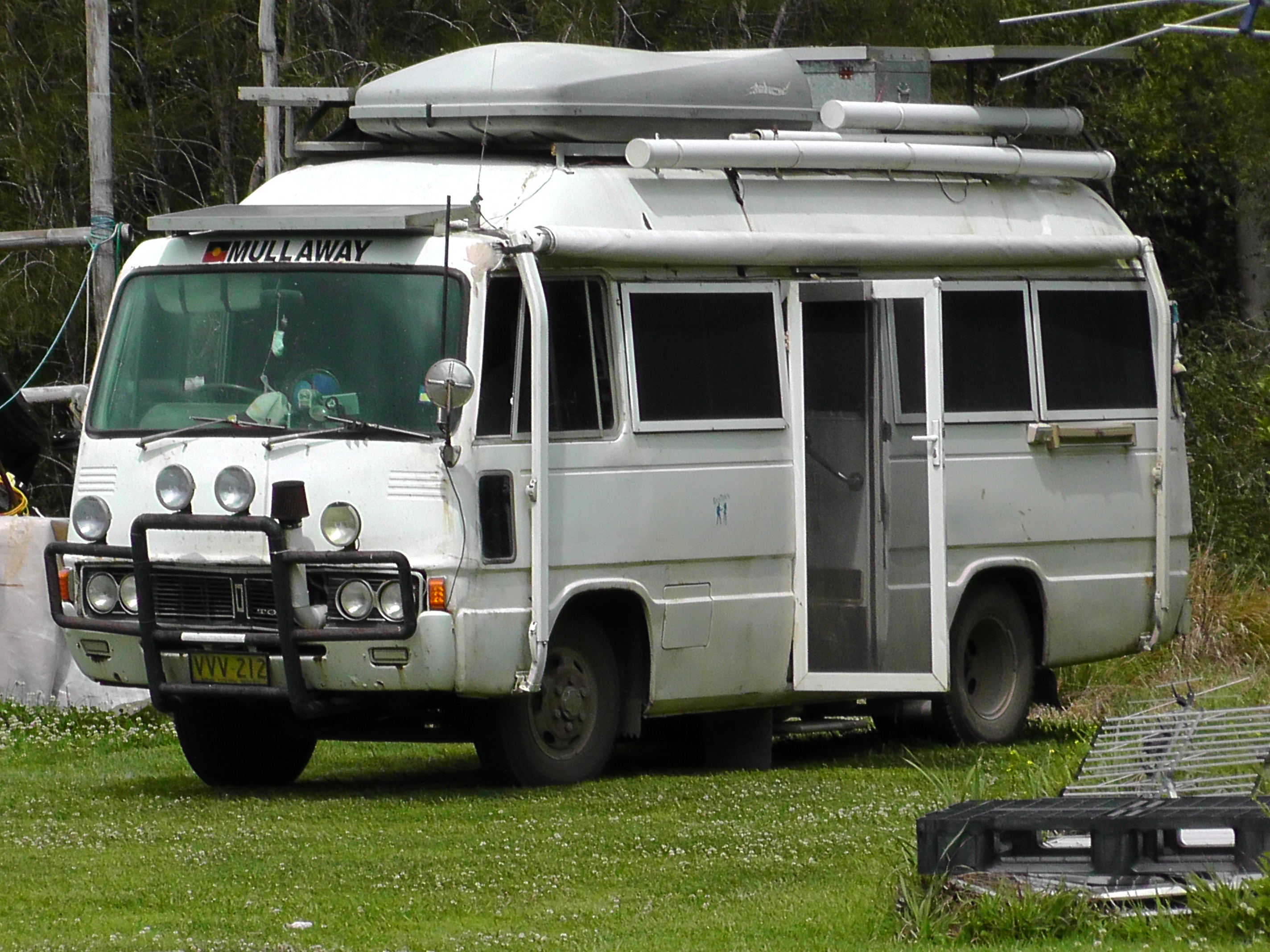 Mullaways Medical CannaBus, used to dispense Mullaways Cannabinoid Tincture to patients suffering from chronic pain, Cancer, HIV/AIDS and other chronic and debilitating illnesses, whom have signed letters from their Doctors overseeing their treatment.